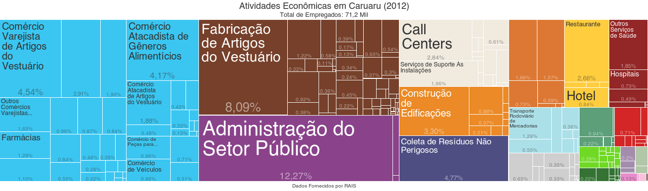 Economics activities in Caruaru per workers number 2012